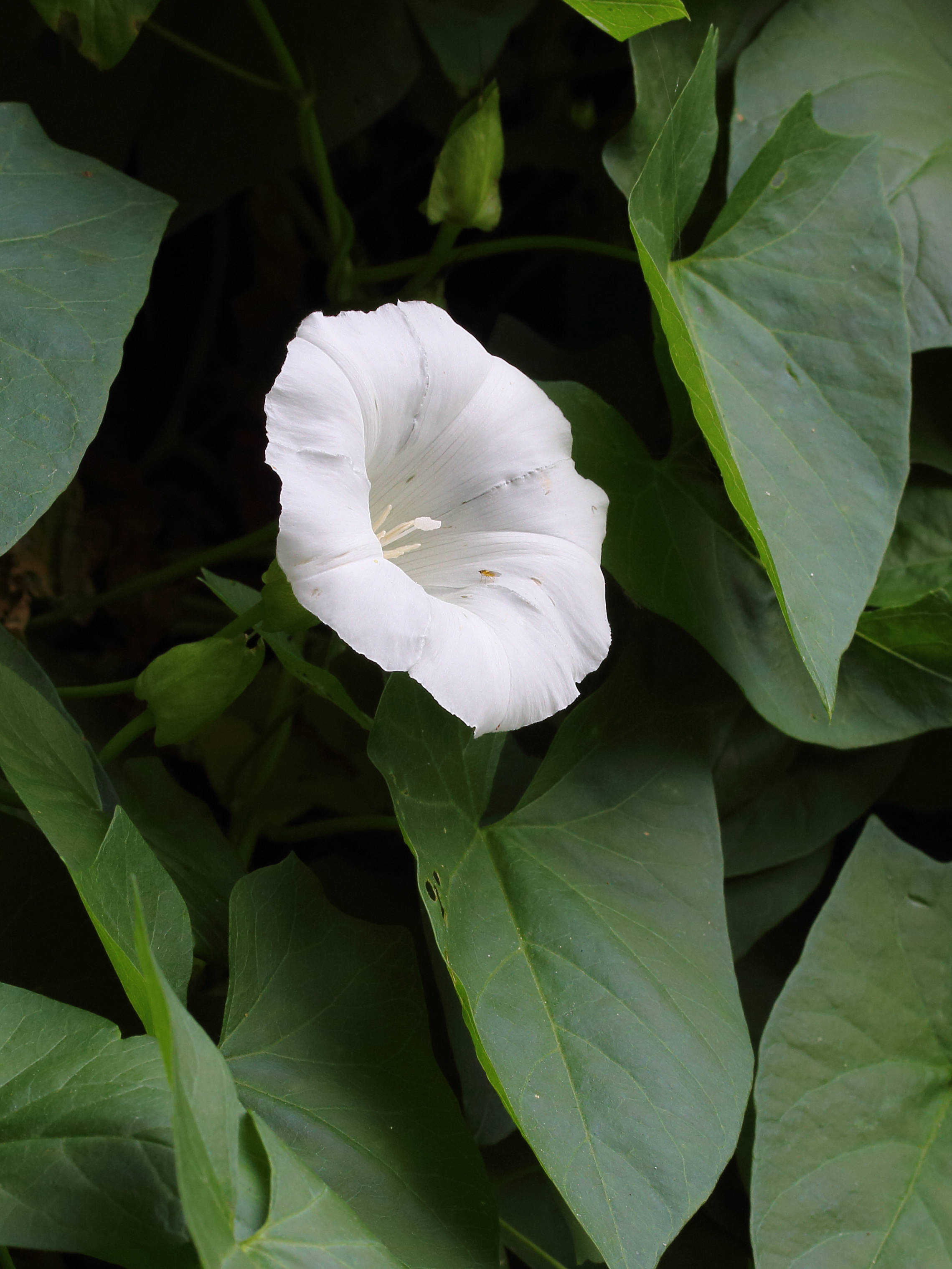 Convolvulus arvensis is a plant from the wind family ( Convolvulaceae).